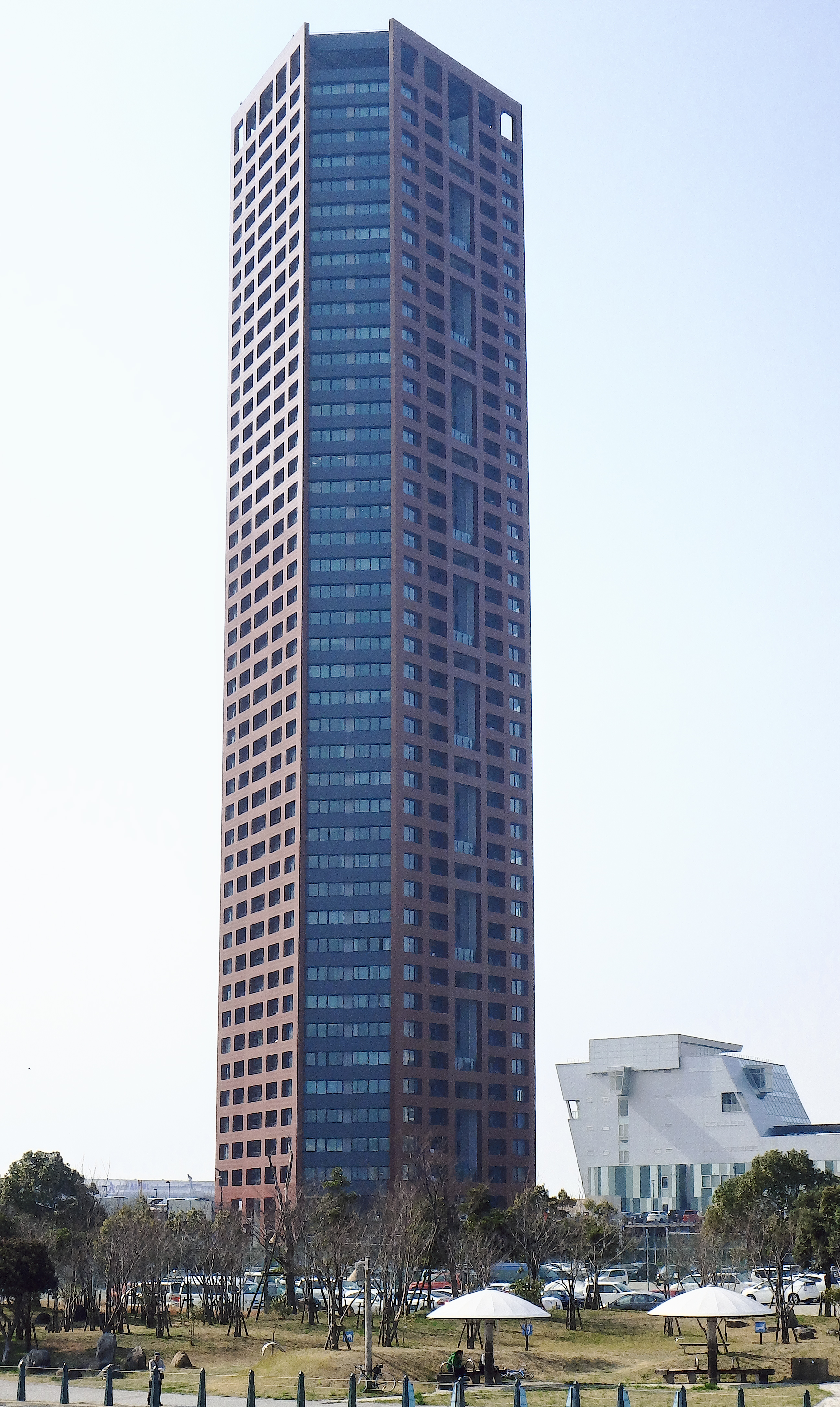 I TOWER,Fukuoka prefecture,Japan